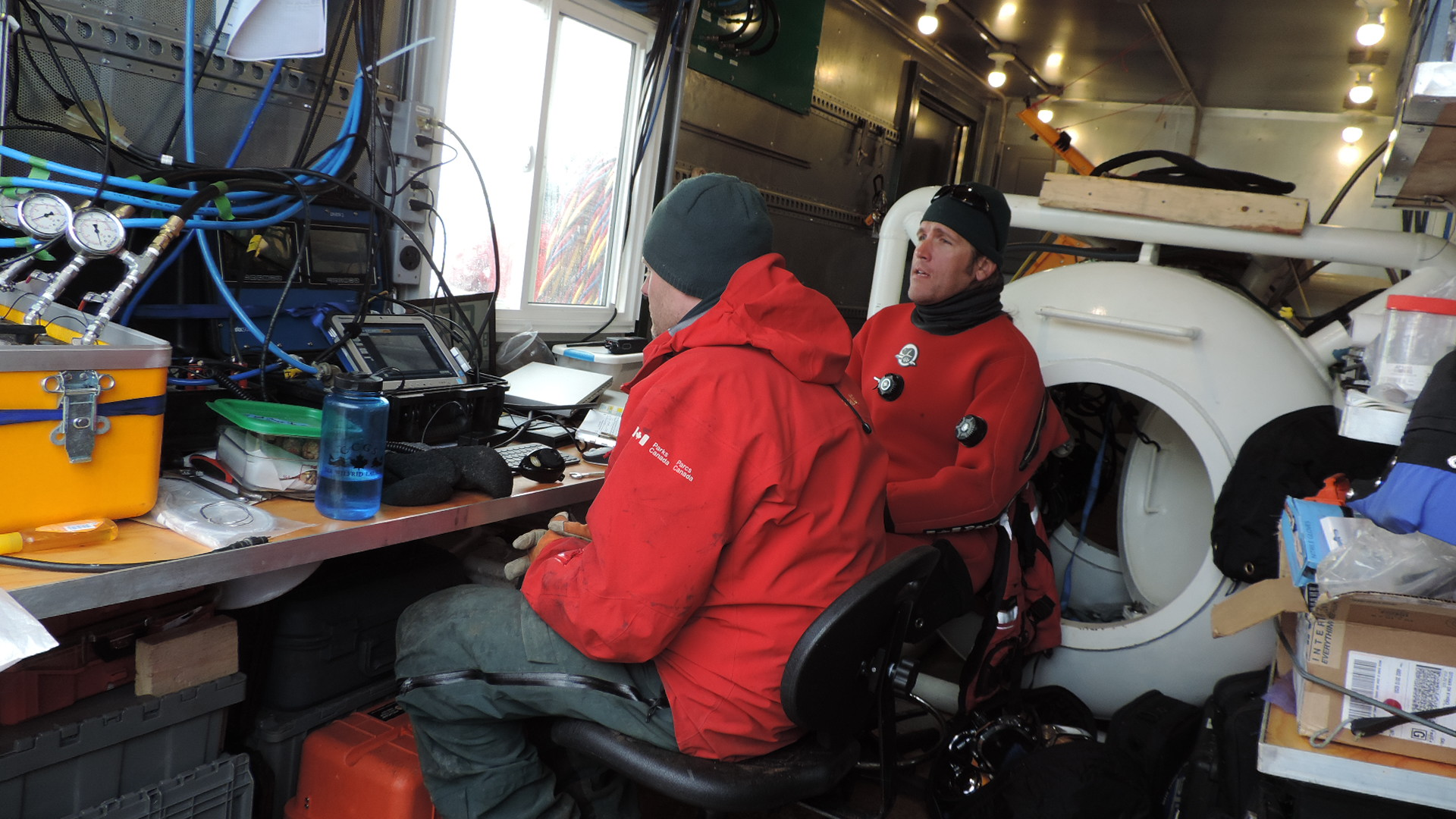 On board Parks Canada's archeology support barge "Qiniqtiryuaq" beside the wreck of the HMS Erebus (1926), 2019. In this container on the barge, the team manage the diving program. Due to the remote location, a decompression chamber is onboard in case divers suffer from the "bends".